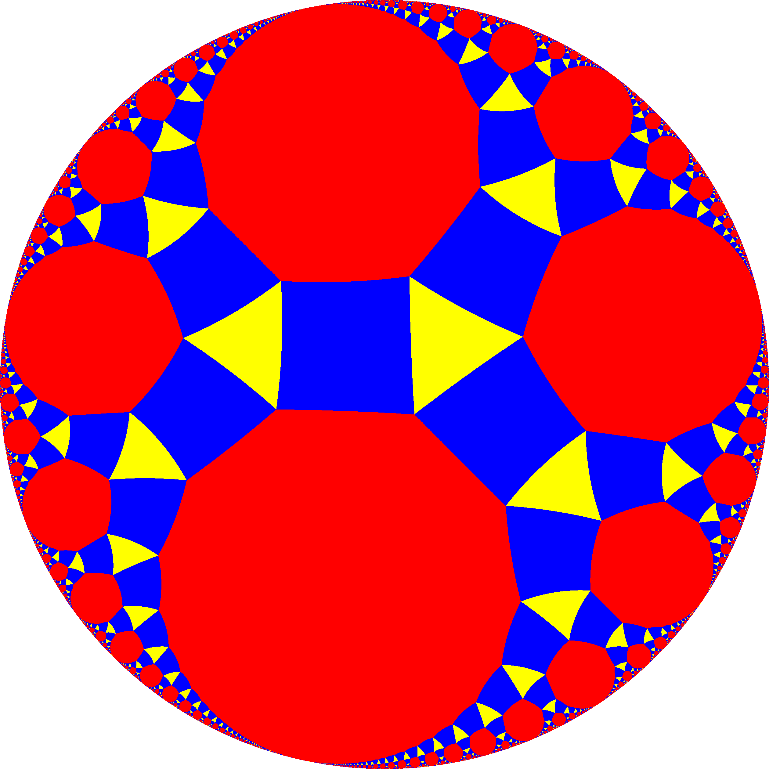 Uniform tiling of hyperbolic plane, x3o∞x. Generated by Python code at User:Tamfang/programs.